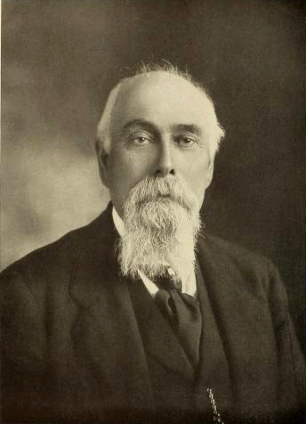 Joseph Sherar, who owned a 19th-century stagecoach stop and a nearby bridge over the Deschutes River in the U.S. state of Oregon